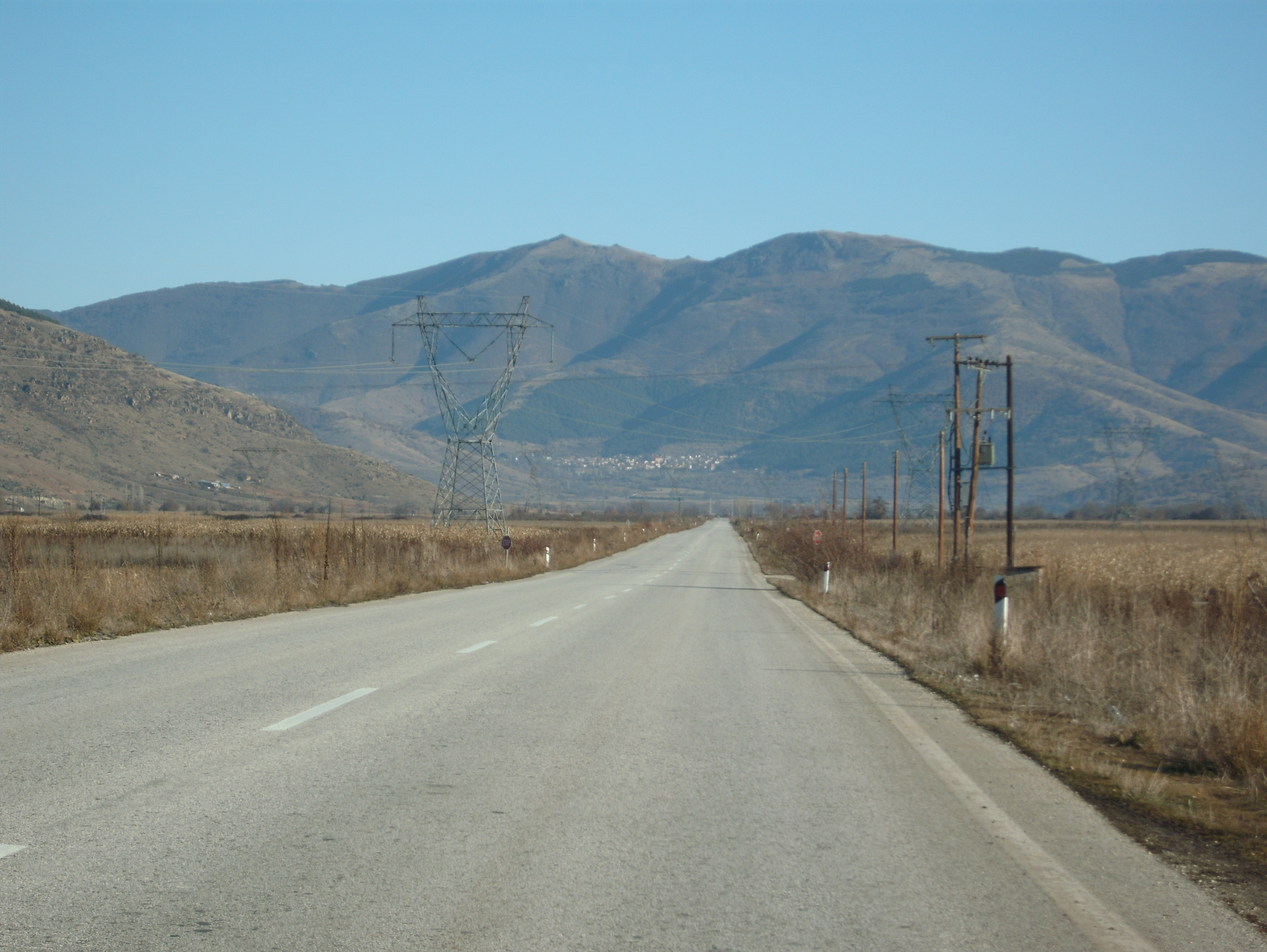 Zagorichani / Vasiliada